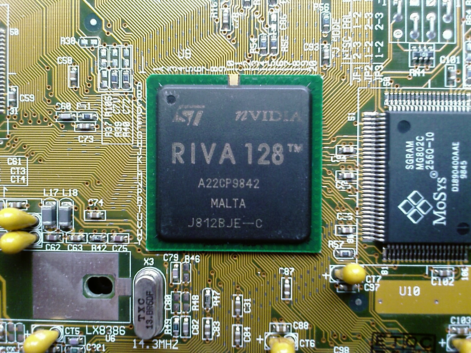 NVIDIA RIVA 128 GPU